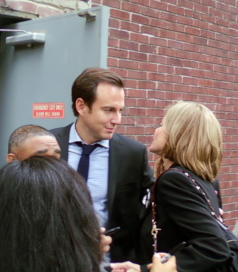 Will Arnett at the Arrested Development 2011 Reunion